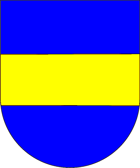 coat of arms